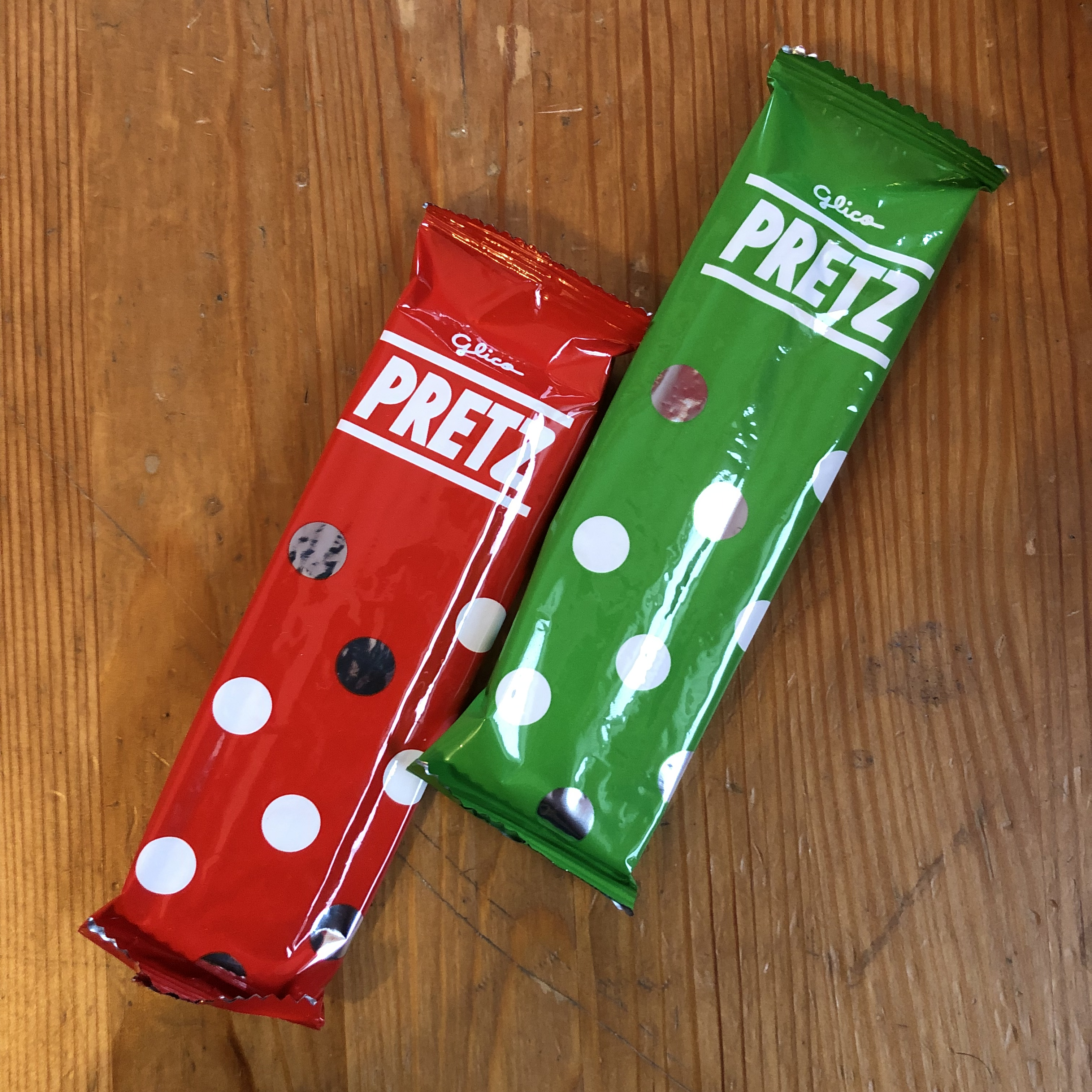 The roast (red) and salad (green) varieties of Pretz, created by Ezaki Glico.